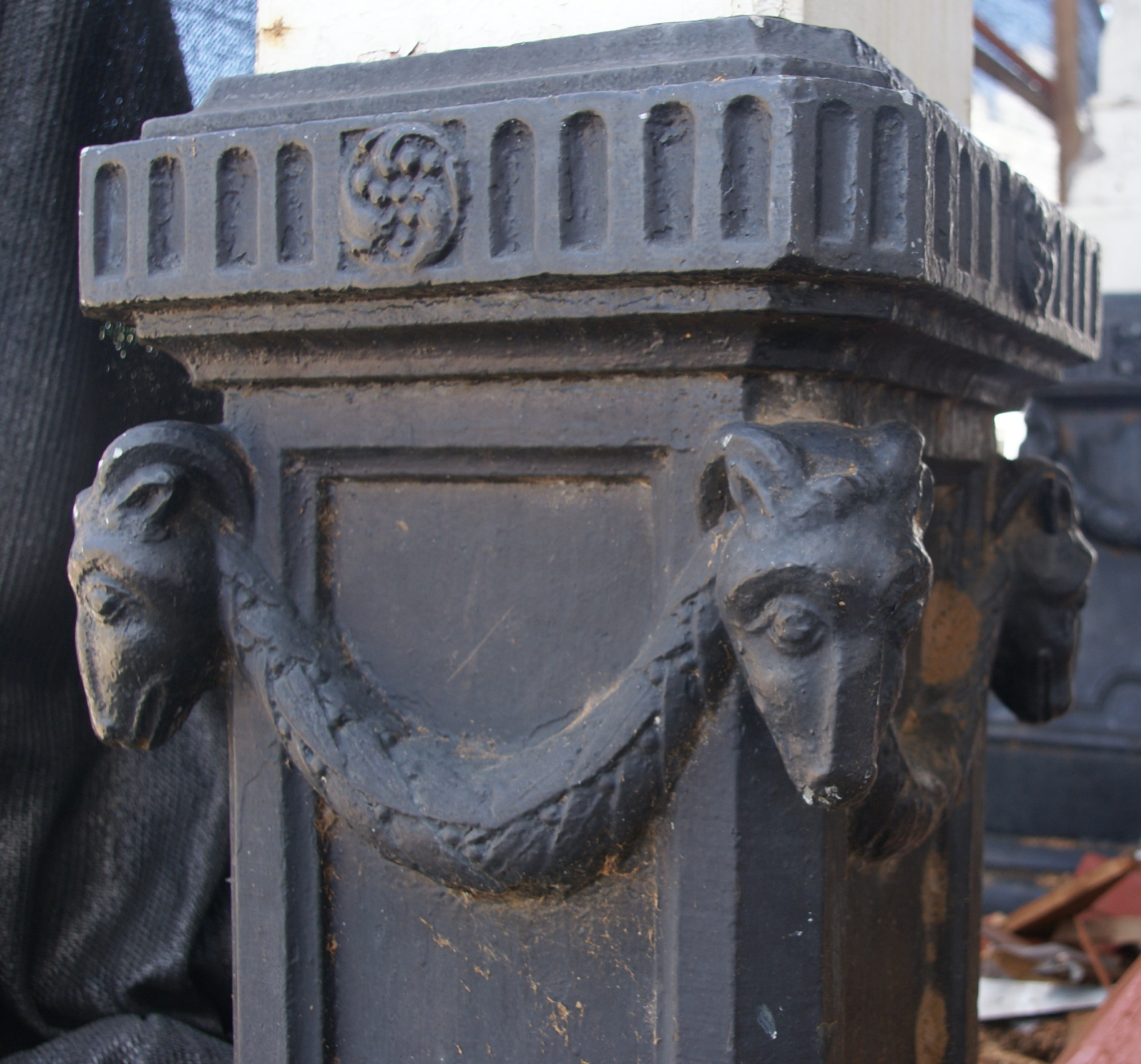 Grote Pastorie, Henck Arronstraat 21, Paramaribo, Surinam. Detail of pillar.